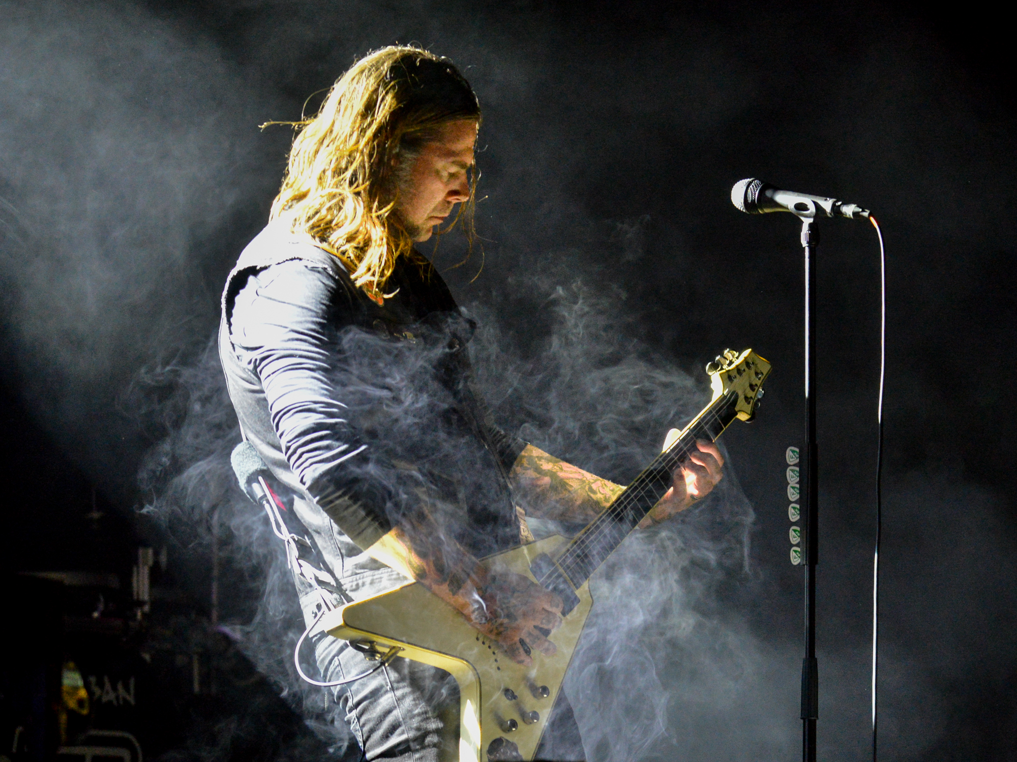 Mustasch performs at Rockfest in Kungsträdgården in Stockholm on July 20, 2018. Band members Ralf Gyllenhammar, Stam Johansson, David Johannesson and Robban Bäck.